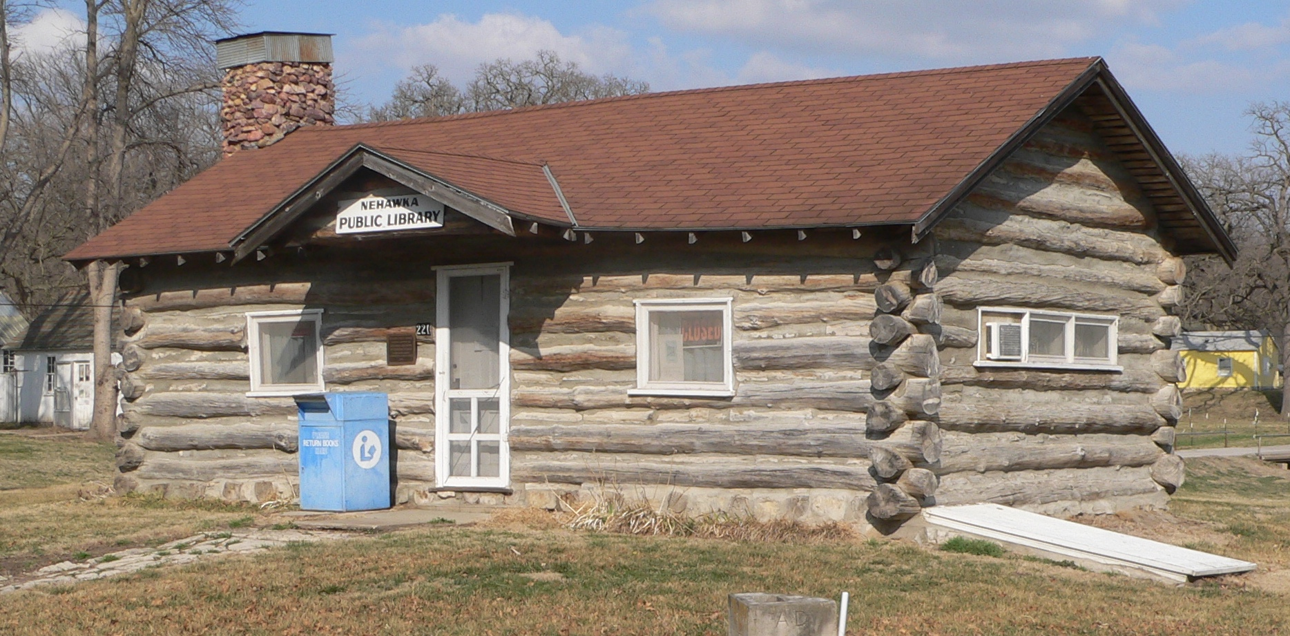 Nehawka Public Library, located at 221 Maple Street (southeast corner of Elm and Maple) in Nehawka, Nebraska; seen from the southwest.